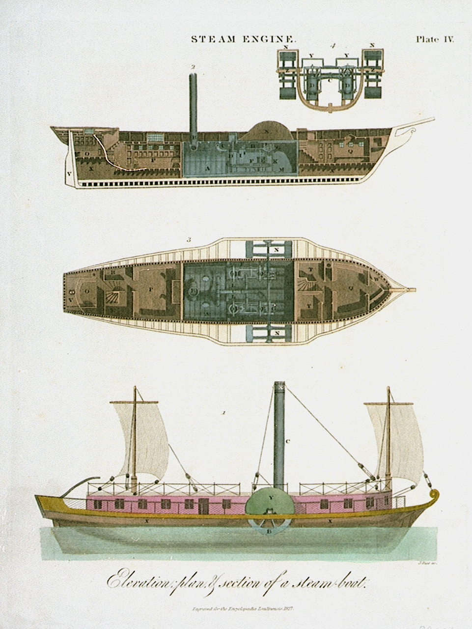 Steam Engine, Elevation plan & section of a steam-boat. Engraved for the Encyclopedia Londinensis Hand-coloured.; Technique includes etching.; Plate No IV.; Stored in mount with PAD6672.